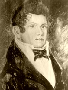 Robert Potter, US Representative from North Carolina